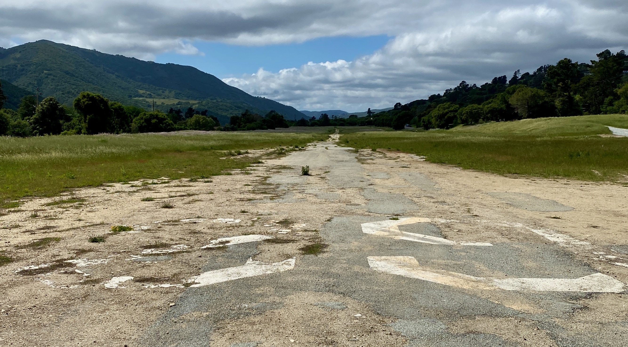 This is a picture of the Carmel Valley Airfield that I took on April 21, 2020.